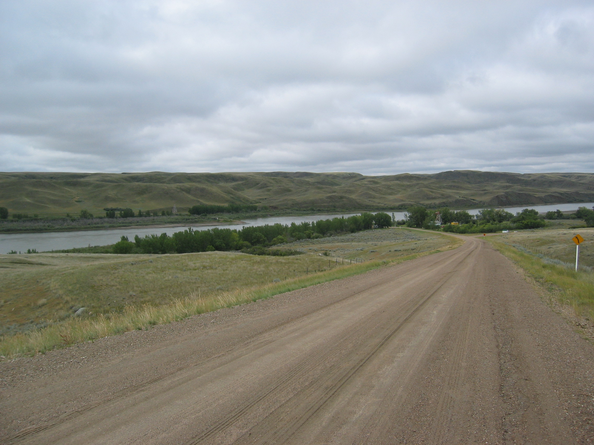 The road approaching the Lancer Ferry Crossing of the South Saskatchewan River